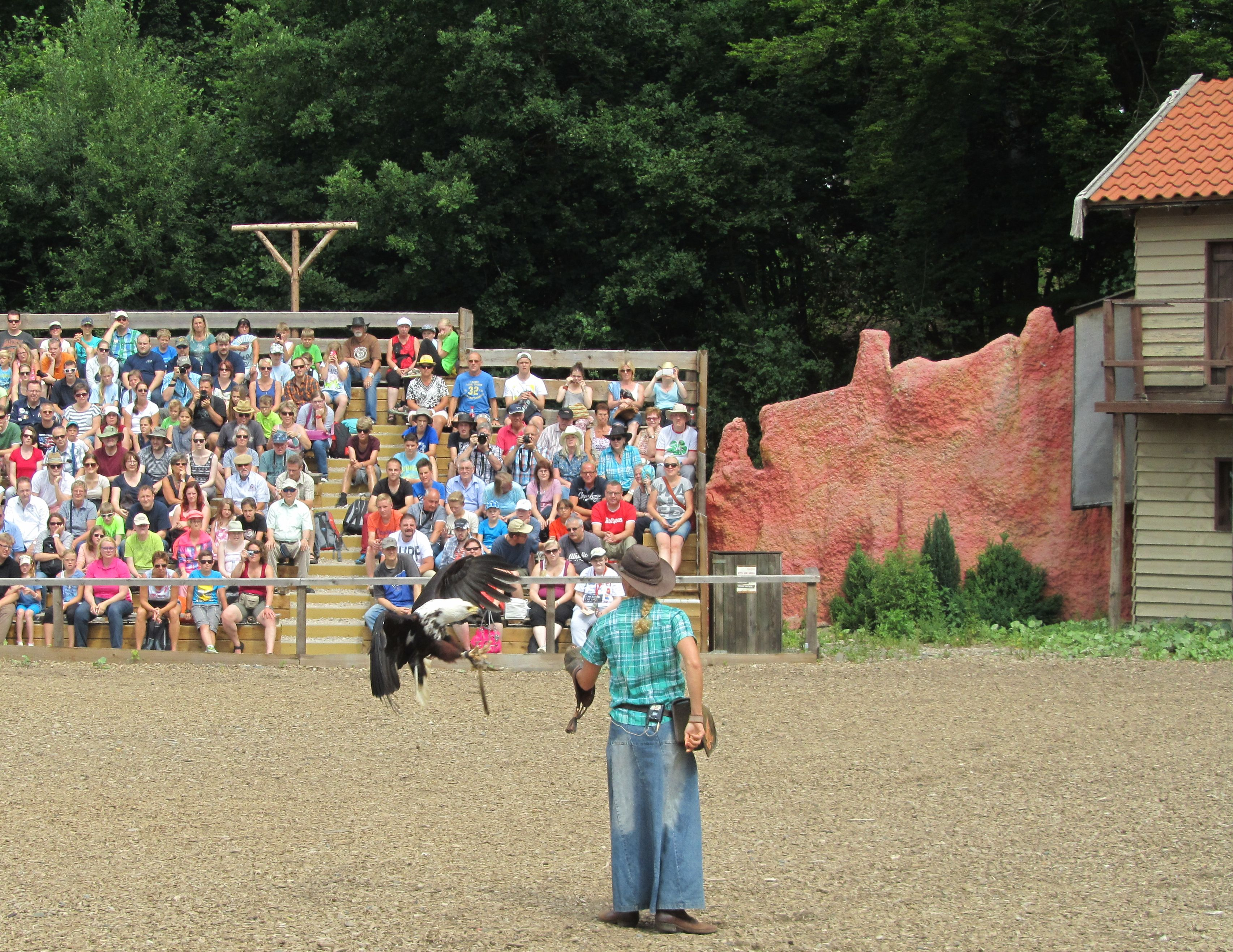 show with birds of prey at the Karl May festival in Elspe, Germany